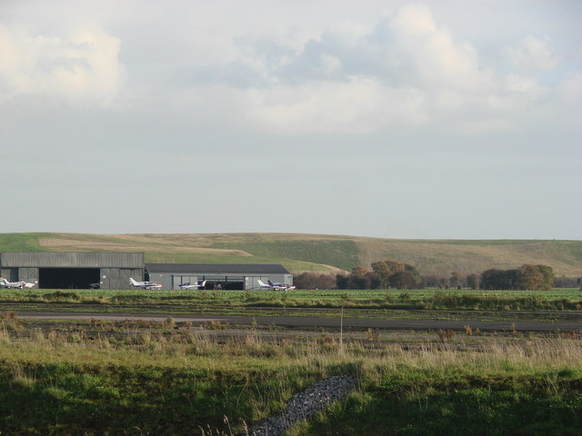 View across the Proving Ground, Sherburn in Elmet Air Field.